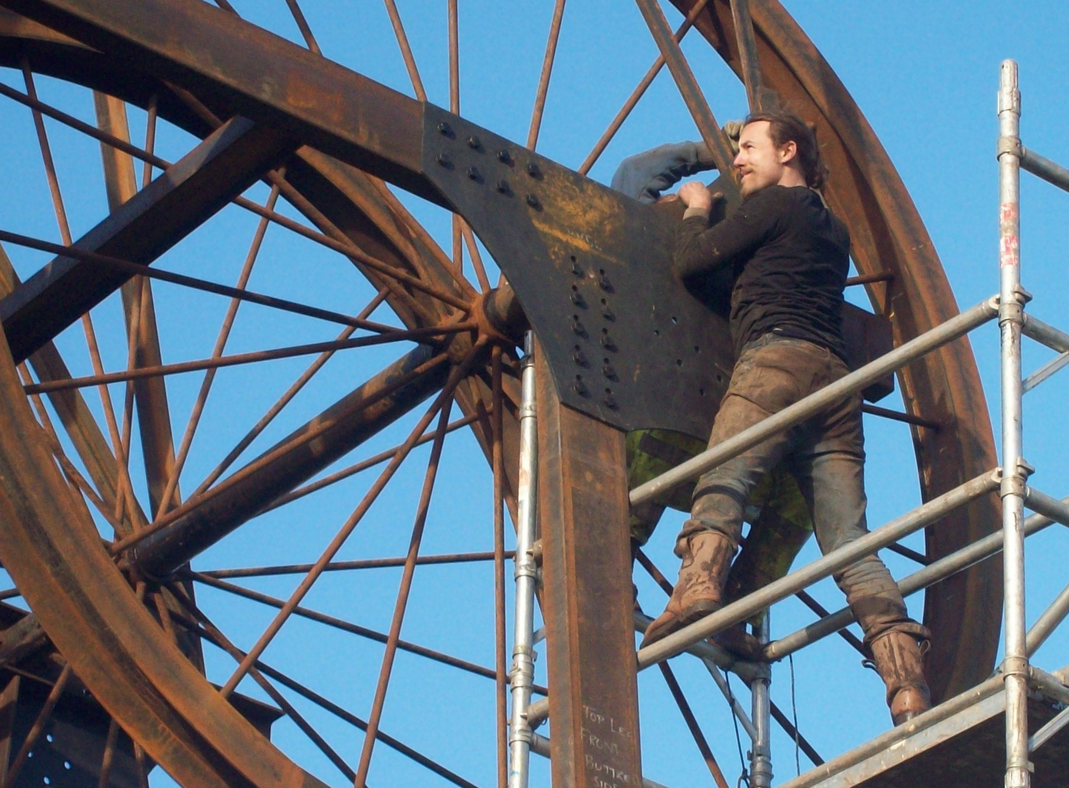 Artist Luke Perry installing his Pit Head sculpture on site in Walsall Wood.